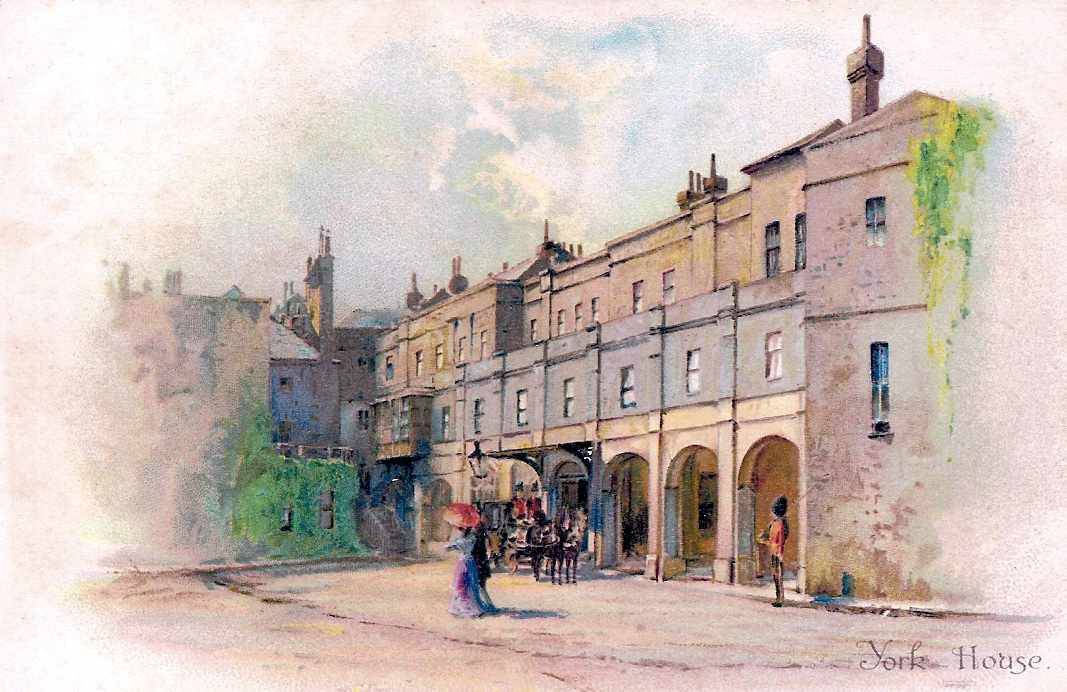 York House in the early 20th Century, now the home of the Duke and Duchess of Kent.